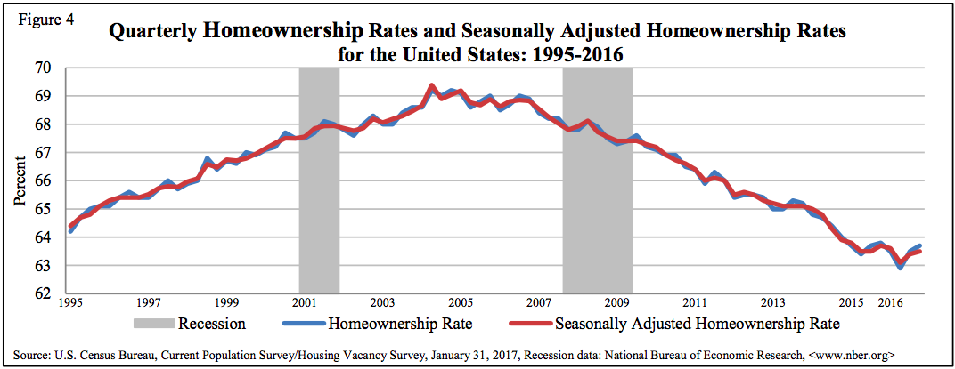 Graph of quarterly homeownership rates